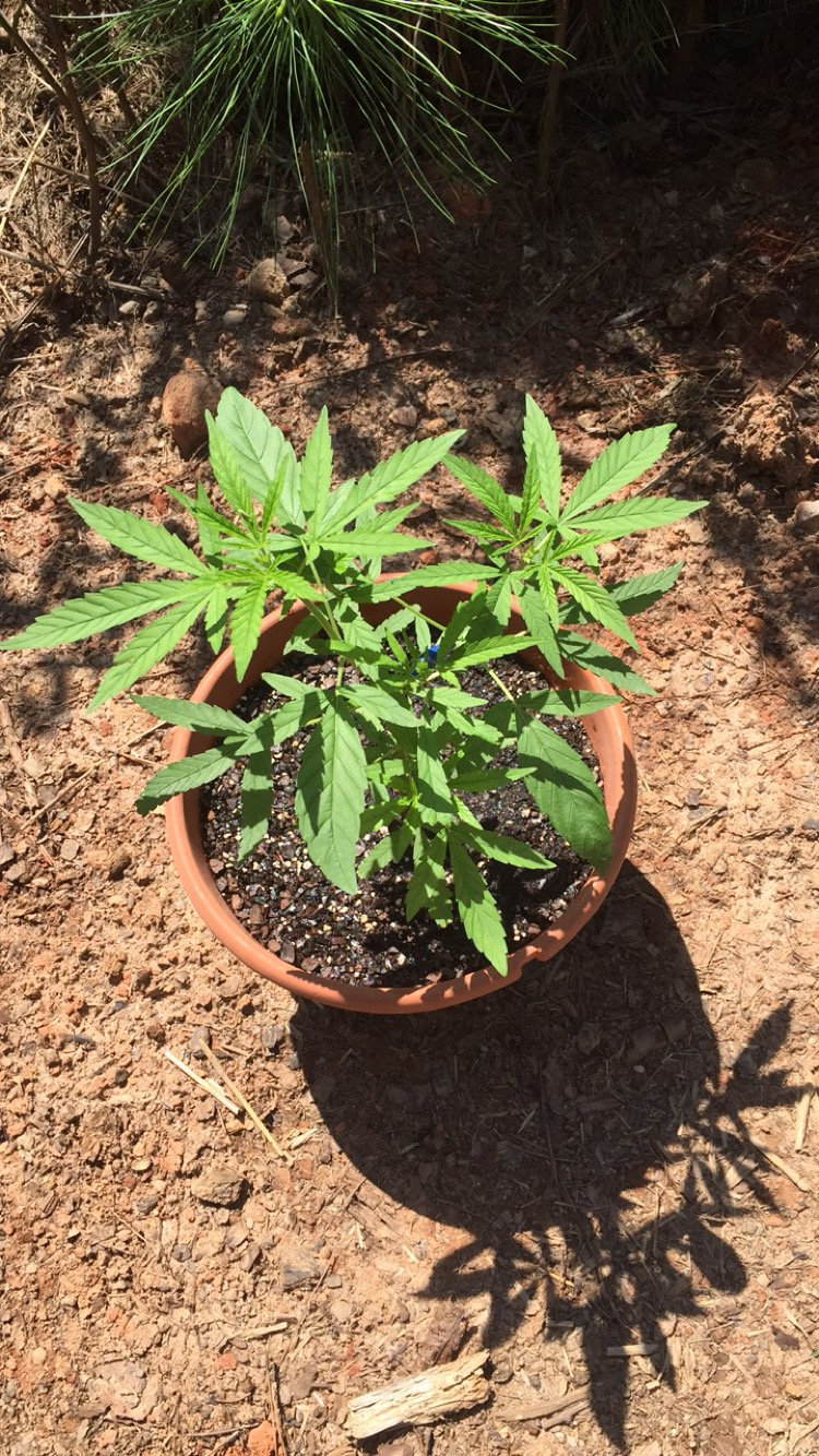 Another picture of the Cannabis Ruderalis Species